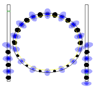 Ring Resonator with continuous wave input at resonance